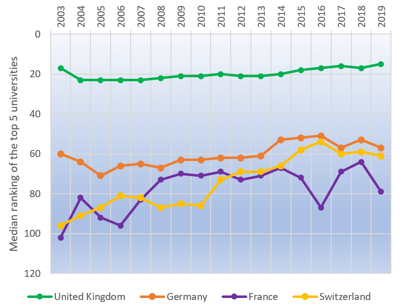 median of the ARWU ranking of the top 5 universities in UK, Germany, Switzerland, and France; data